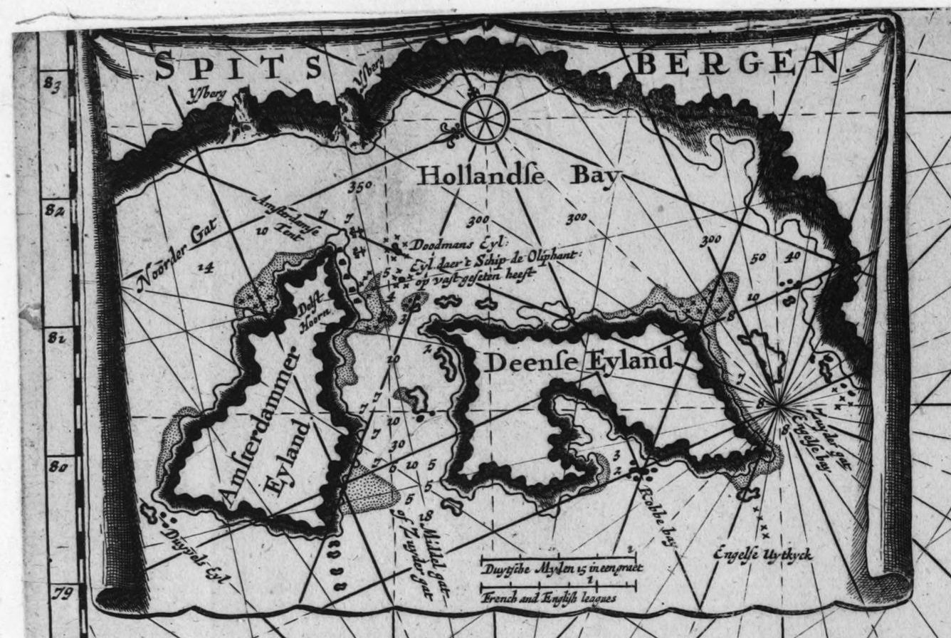 Amsterdam Island and Danskøya near Spitsbergen shown as a detail (insert) of a 17th century Dutch map of the North-East Atlantic and Barents Sea. The long Dutch name of the map translates more or less as: "Map of Russia, Lapland, Finmark, Spitsbergen and Nova Zembla checked for news and improved, with the river of Archangel, Jan Mayen Island and a part of Spitsbergen which are shown very accurately in separate tables (inserts) in their details at a large scale." North is left.